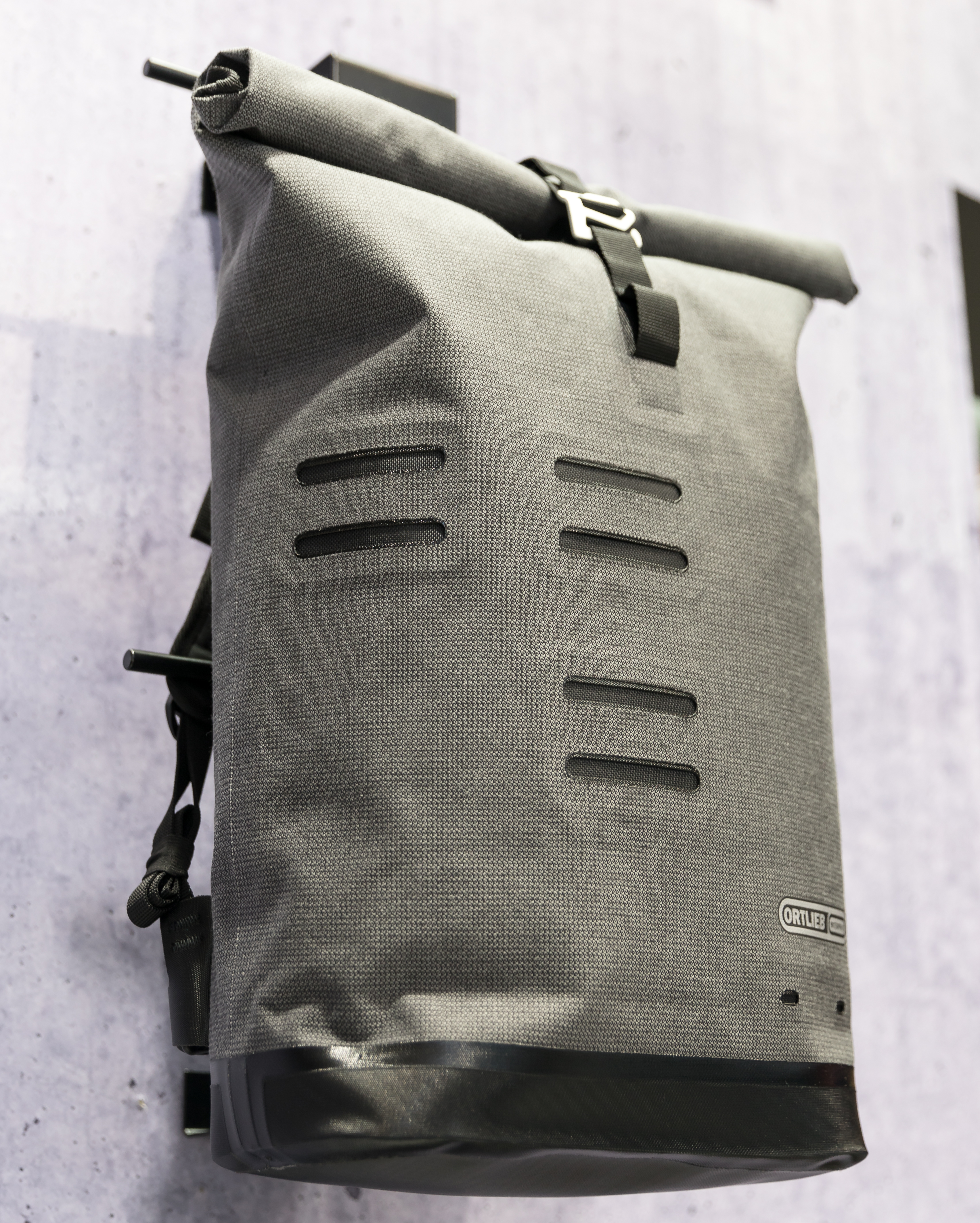 Ortlieb backpack, OutDoor 2018